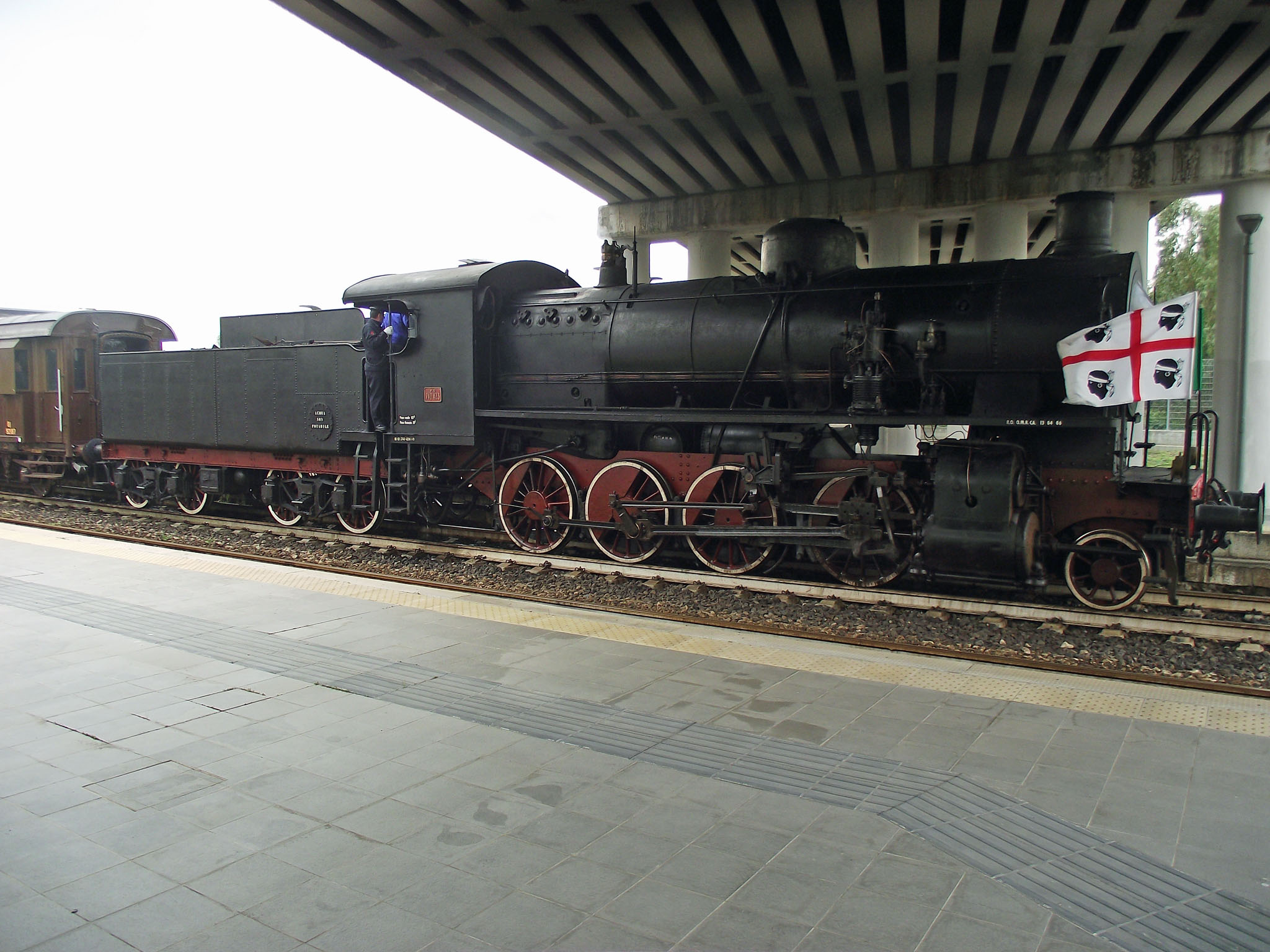 Steam Locomotive FS 740 423 waiting in the Villamassargia-Domusnovas train station, in Sardinia, Italy